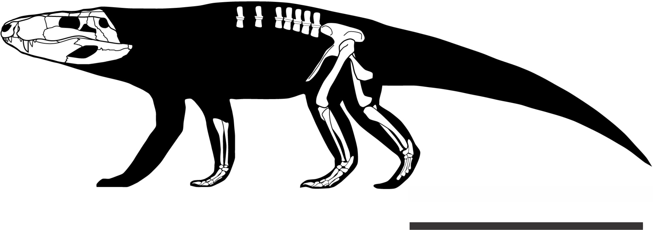 Skeletal reconstruction of Pissarrachampsa sera, including all known cranial and postcranial material. Scale bar equals 80 cm.